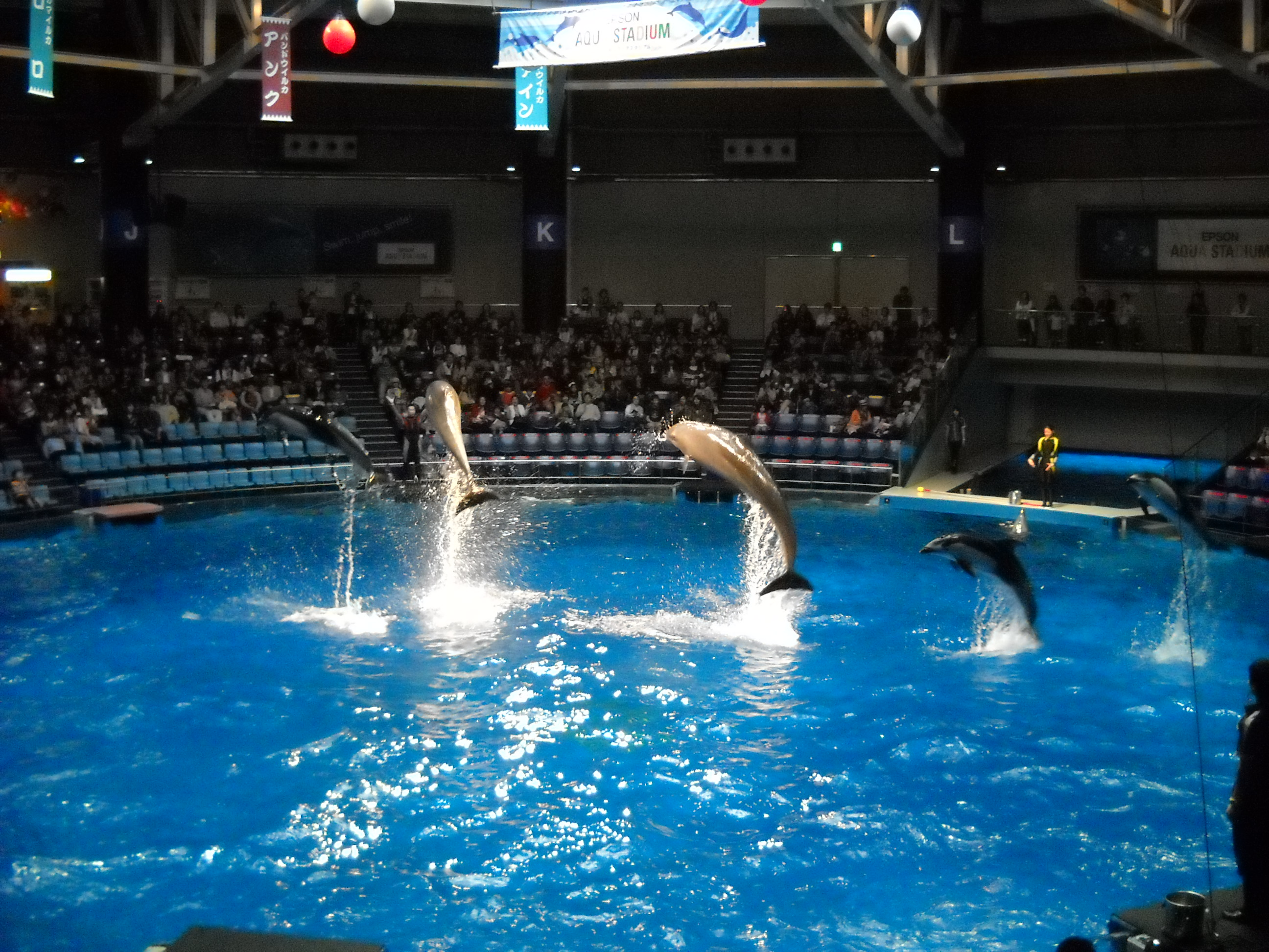 EPSON AQUA STADIUM, Takanawa, Minato city, Tokyo, Japan